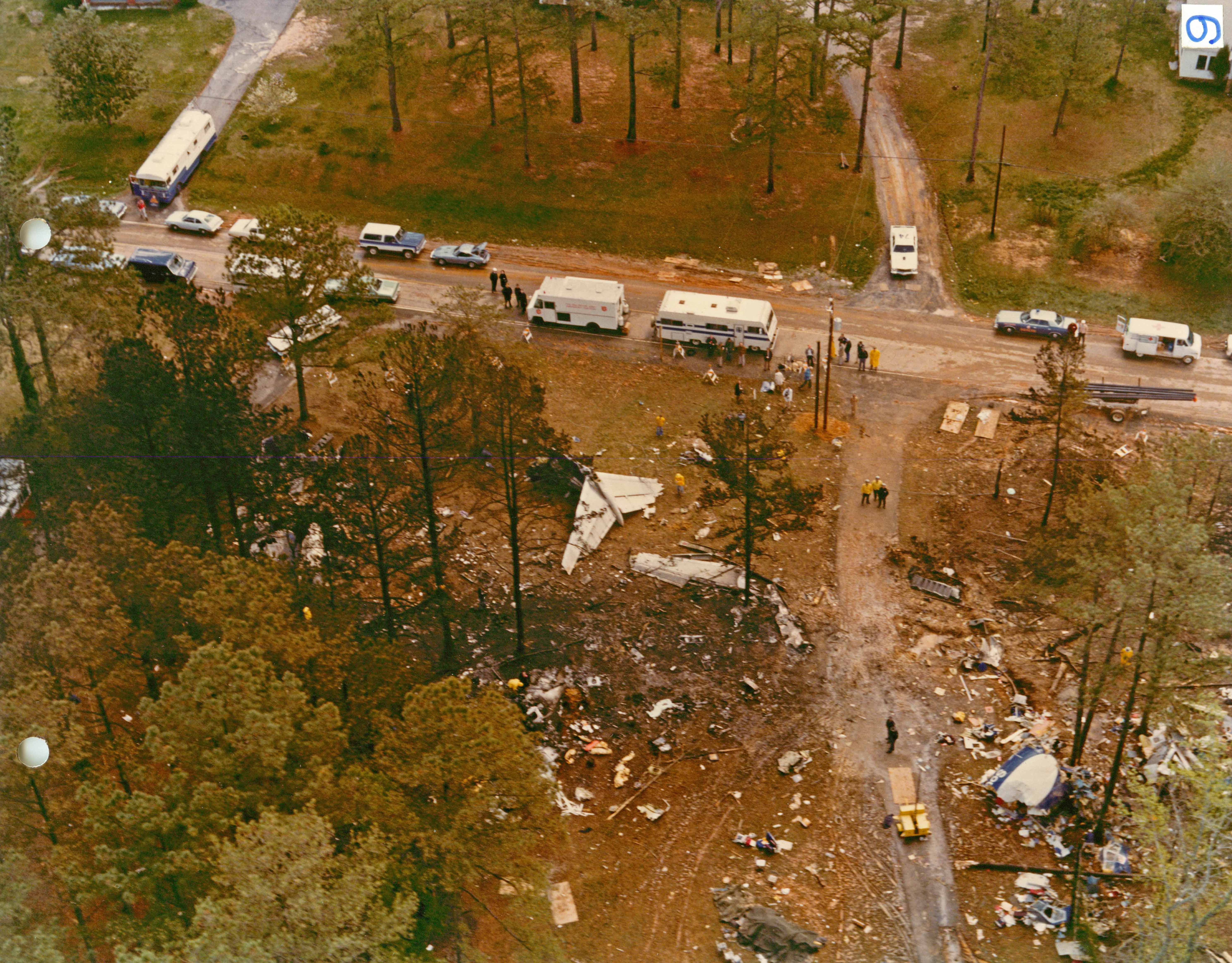 The overhead view of the debris field of Southern Airways Flight 242